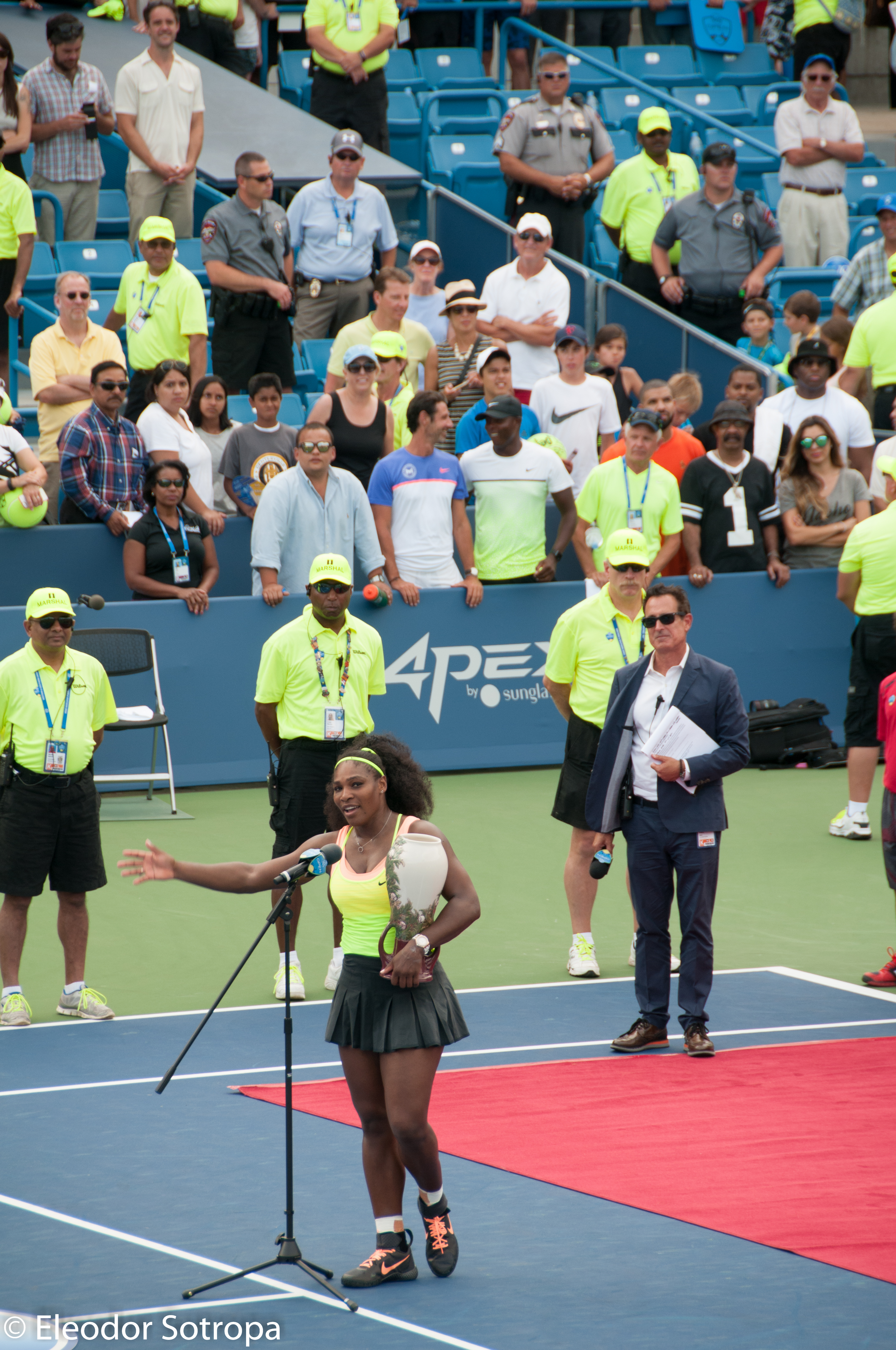 Cincinnati-Tennis-2015-ATP-WTA-185